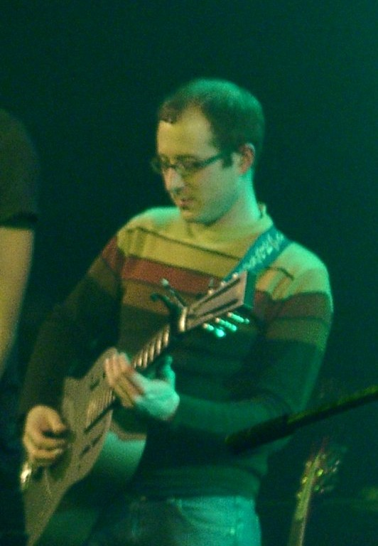 Mike Mogis at a Bright Eyes show in Berlin on March 2, 2005